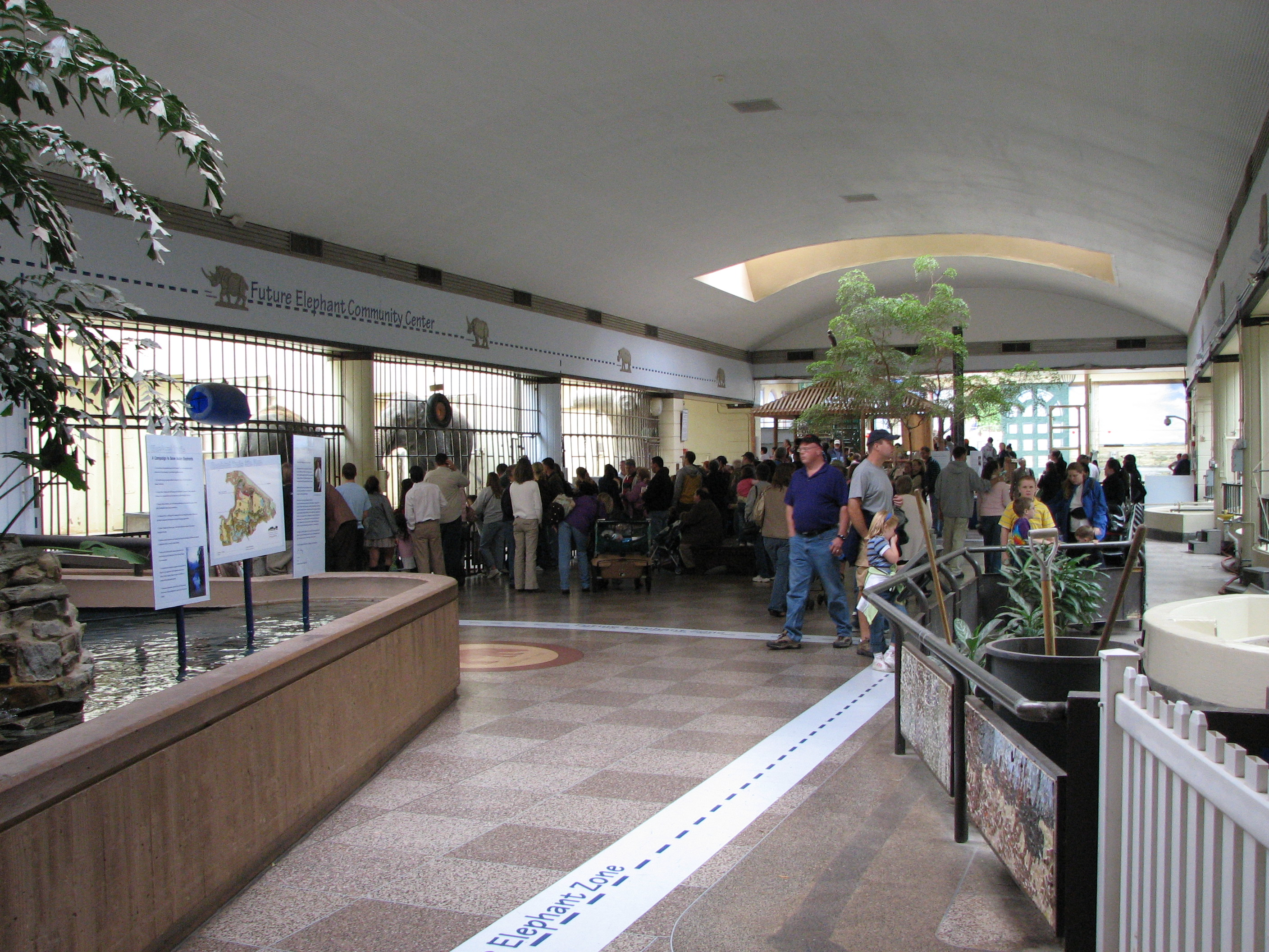 Smithsonian National Zoological Park - elephant house.